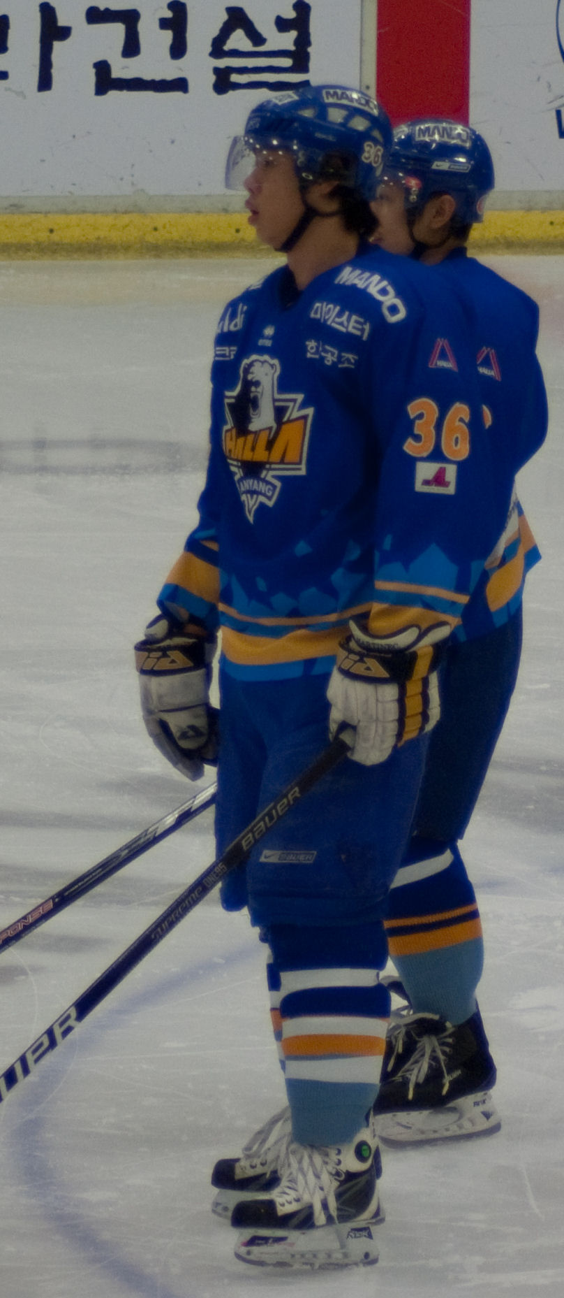 Park Woo-sang during warm-up